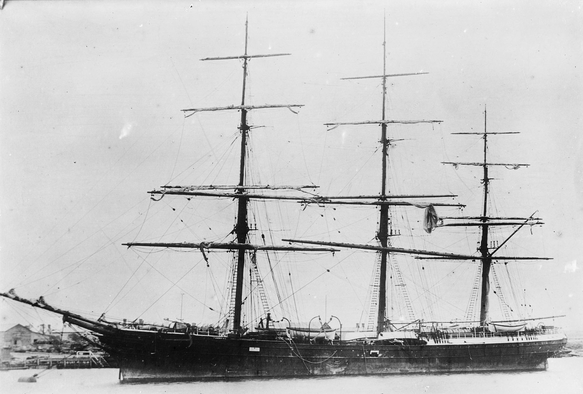 Original caption: “The 'Torrens' (1875, 1335 GRT) was a three-masted iron vessel built by James Lang of Sunderland for the Elder Line. She made annual trips to Adelaide until she was sold in 1903. She was specially designed to carry passengers to Australia. A beautiful and swift vessel, she held many records for the trip. She was broken up in 1910. During the return voyages of 1891-92 and 1892-93, Józef Korzeniowski (who later became famous as the writer Joseph Conrad) served as Chief Officer.”